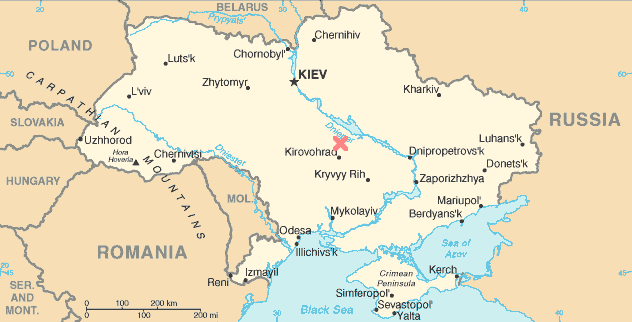 Location of the Boltysh Crater in Ukraine. Adapted from public domain map Image:Up-map.png.